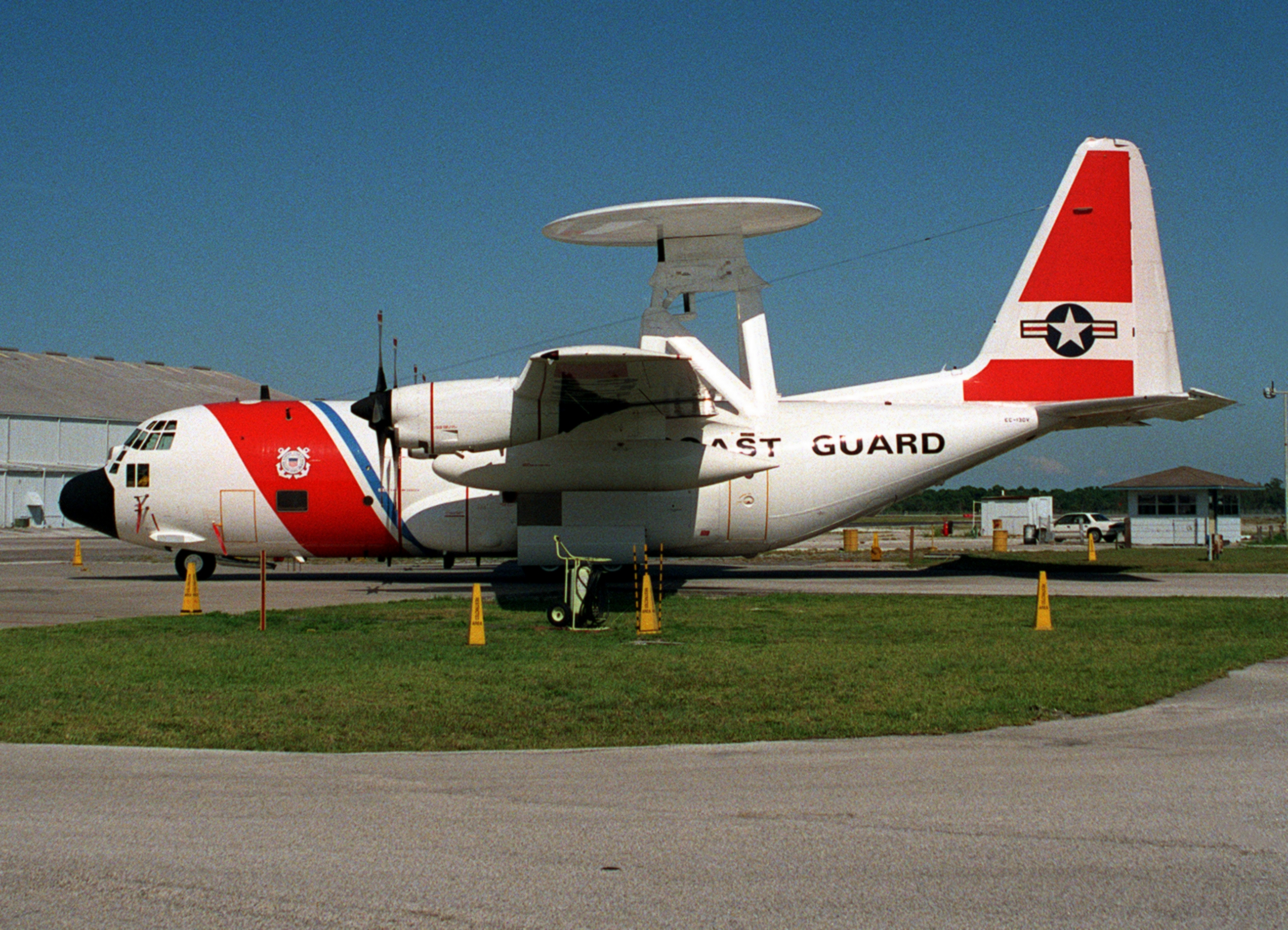 A U.S. Coast Guard Lockheed EC-130V Hercules aircraft parked on the flight line at Coast Guard Air Station Clearwater, Florida (USA), in 1993. The HC-130H (s/n 87-0157, USCG 1721) was modified to an EC-130V and equipped with an E-2C APS-125 radar radome. The first flight was on 31 July 1991, and the aircraft was handed over to Coast Guard for 11-month test period on 16 October 1991. It was returned to the USAF as NC-130H in 1994. Later it was in service with the U.S. Navy at NAS Patuxent River, Maryland (USA).